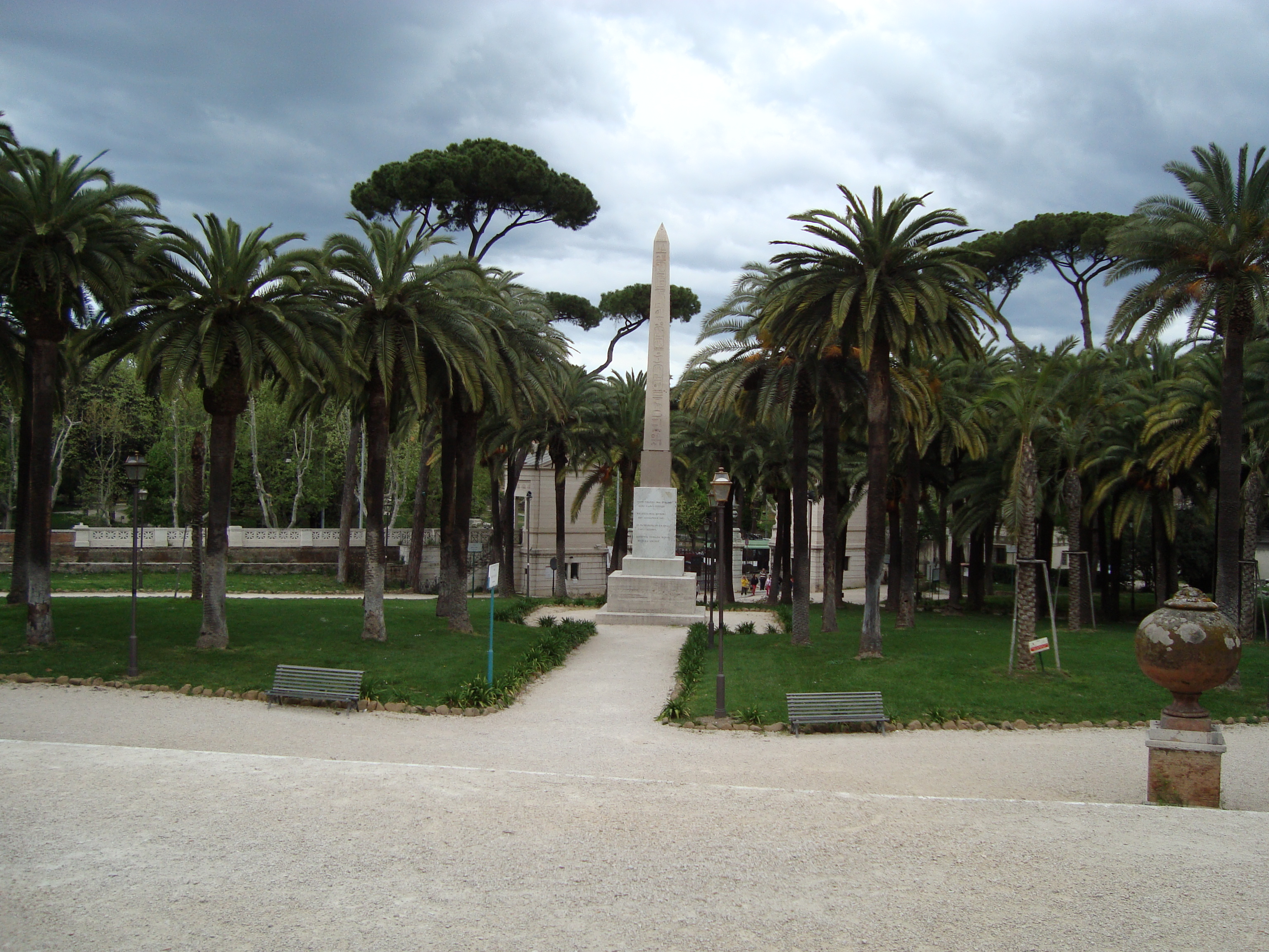 L'obelisque du parc de la villa Torlonia a Rome